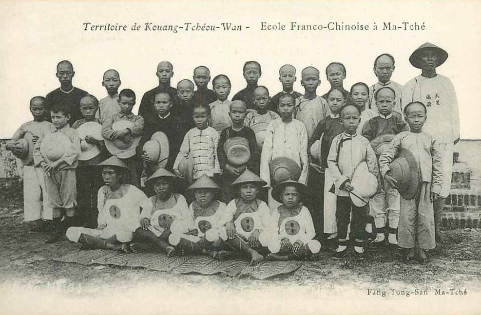 Pupils and teachers of the École franco-chinoise at Ma-Ché (Fort Bayard), French Leased Territory of Kouang-Tchéou-Wan (now Guangzhouwan). Postcard issued c. 1905-1910.